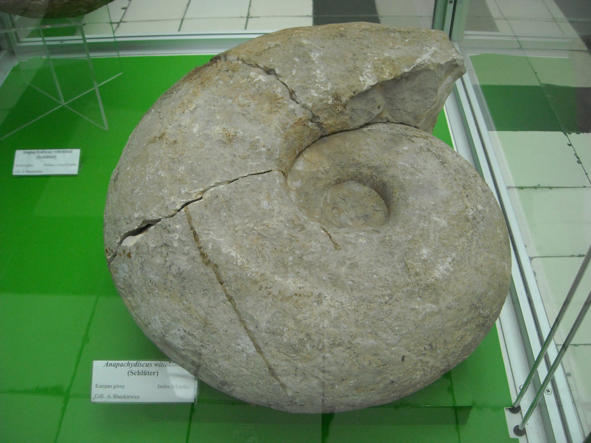 Anapachydiscus wittekindi - species of ammonite. This specimen comes from the Upper Campanian and was collected by A. Błaszkiewicz in Janów koło Lipska